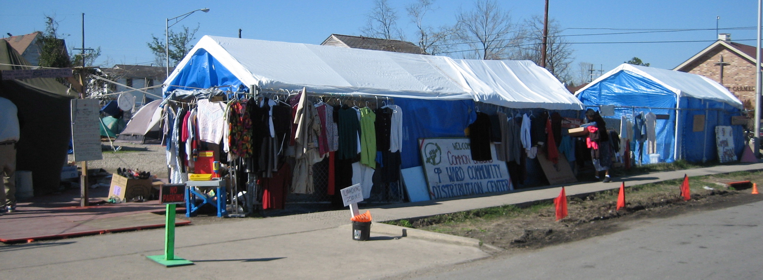 New Orleans after Hurricane Katrina: Common Ground relief center in formerly flooded Upper 9th Ward